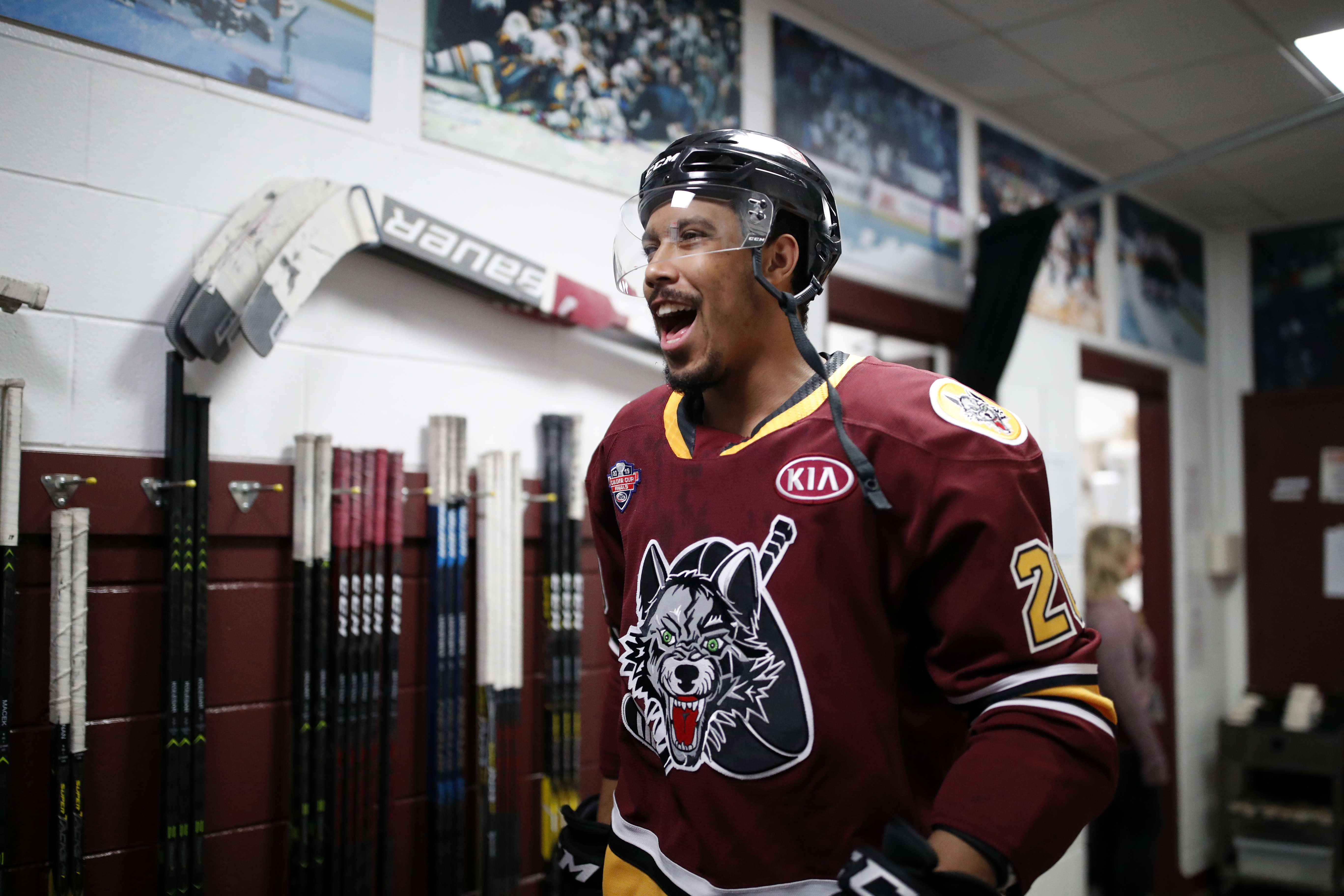 Photo: Ross Dettman